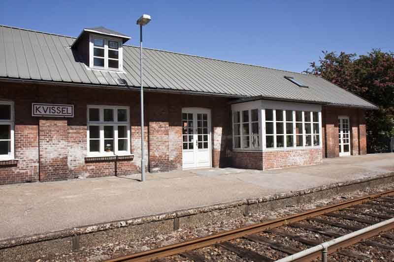 Kvissel railway station, situated app. 10 km vest of the danish city Frederikshavn, may 2009